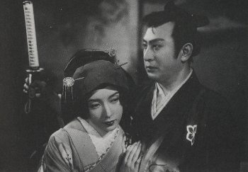 Utaemon Ichikawa and Chikako Miyagi in 1950 Japanese movie Hatamoto taikutsuotoko torimonohikae: Dokusatsu maden（The Idle Vassal: Demon Hall of poisoning）.